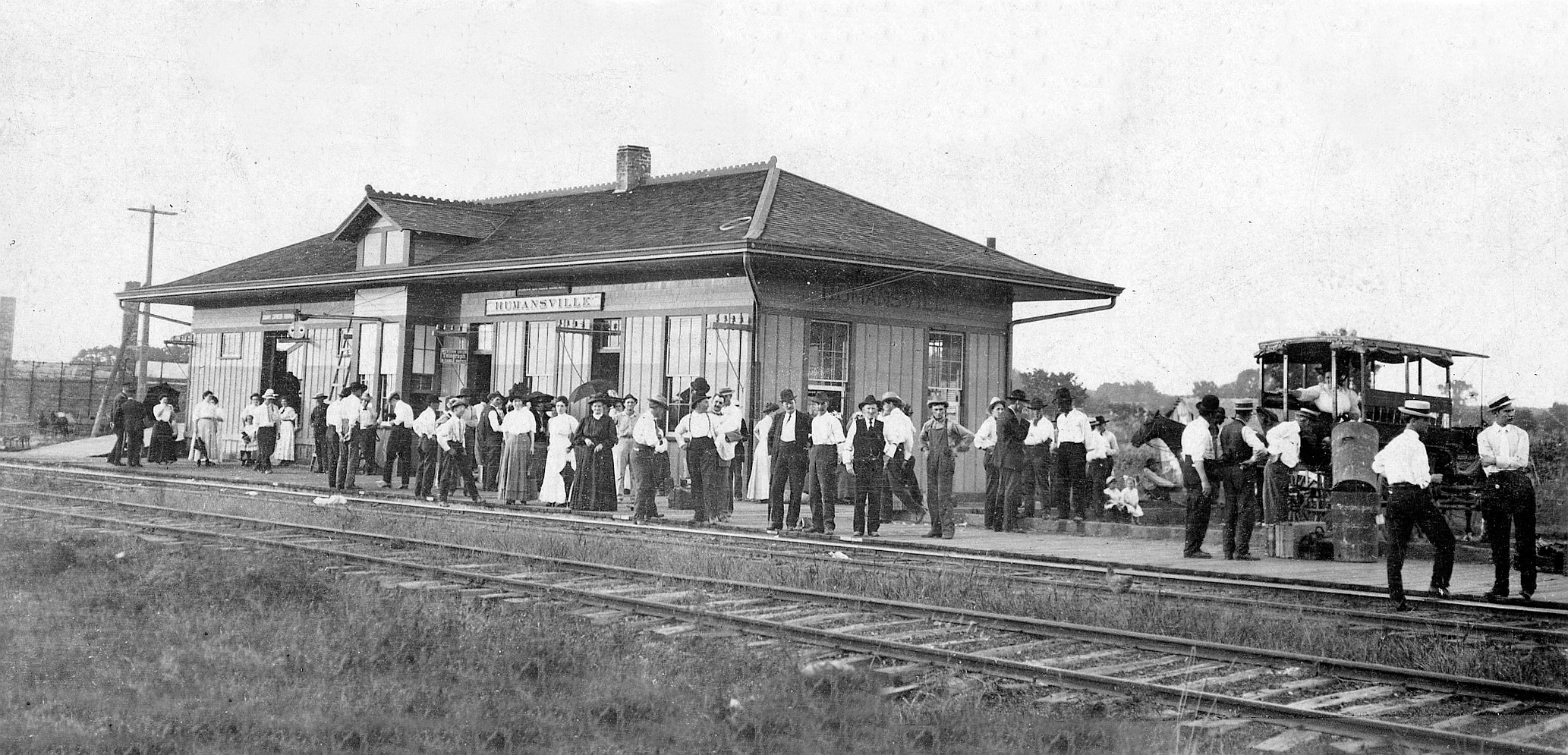 Collection Name: Vanishing Missouri Collection Photographer/Studio: Unknown Description: Crowd of people waiting for train to see and greet President Taft. Coverage: United States - Missouri Date: ca. 1910 Rights: Copyright is in the public domain. Credit: Courtesy of Missouri State Archives Image Number: VanMO_102-021 Institution: Missouri State Archives